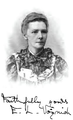 Picture of Ethel Lilian Voynich, the writer and namesake for an asteroid (minor planet 2032 Ethel). She was the daughter of the mathematician, George Boole.